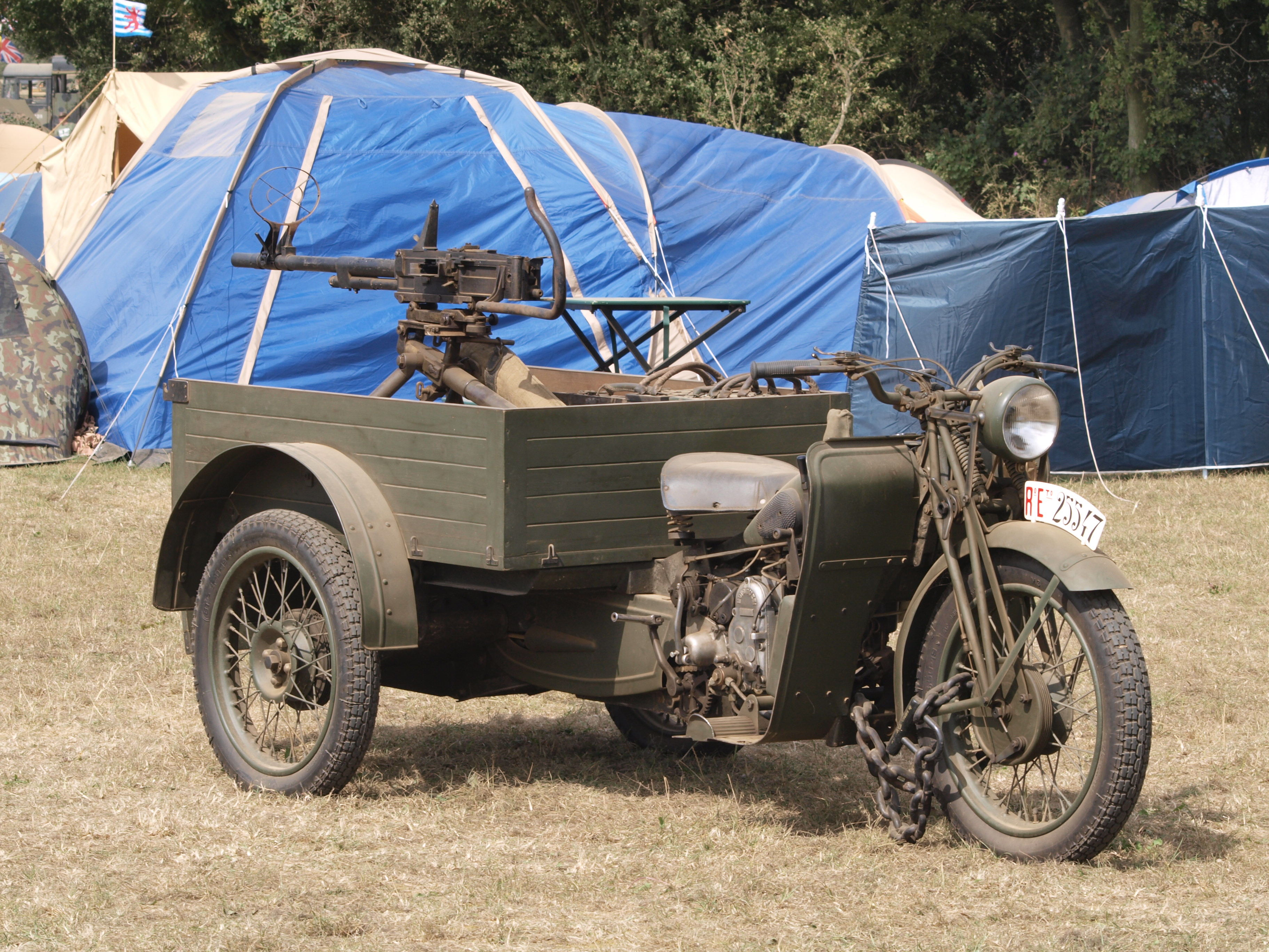 Moto Guzzi 500 TriAlce? Photographed at the War & Peace show.